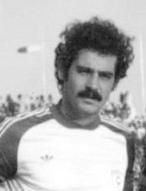 Roberto Rivelino in 1979 in Saudi Arabia. When he was playing in the Al Hilal Saudi Club.